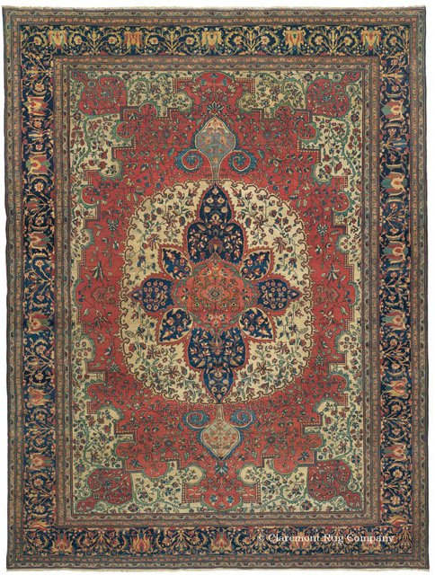 Ferahan Sarouk carpet, 8ft 9in x 11ft 8in. Circa 1850